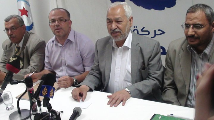 Rached Ghannouchi (centre) during an Ennahda party conference. [Monia Ghanmi] Rachid Ghannouchi (centre) leads Ennahda, an Islamist party once banned in Tunisia.